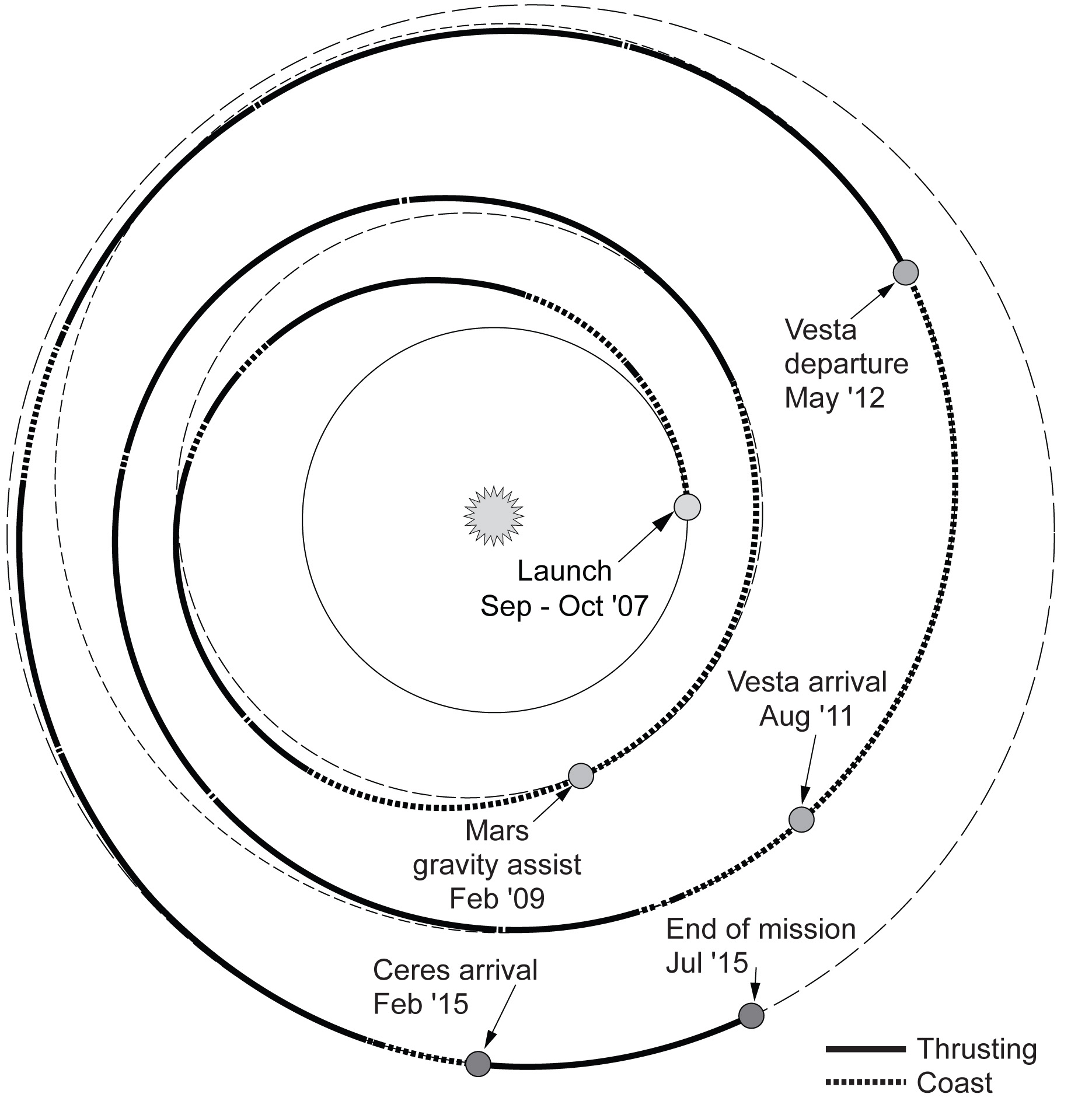 Trajectory of the Dawn spacecraft (actual date of launch in September 2007)